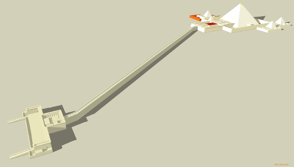 Restoration of the pyramid of Pepi II and his consorts - 6th dynasty of Egypt - Saqqara